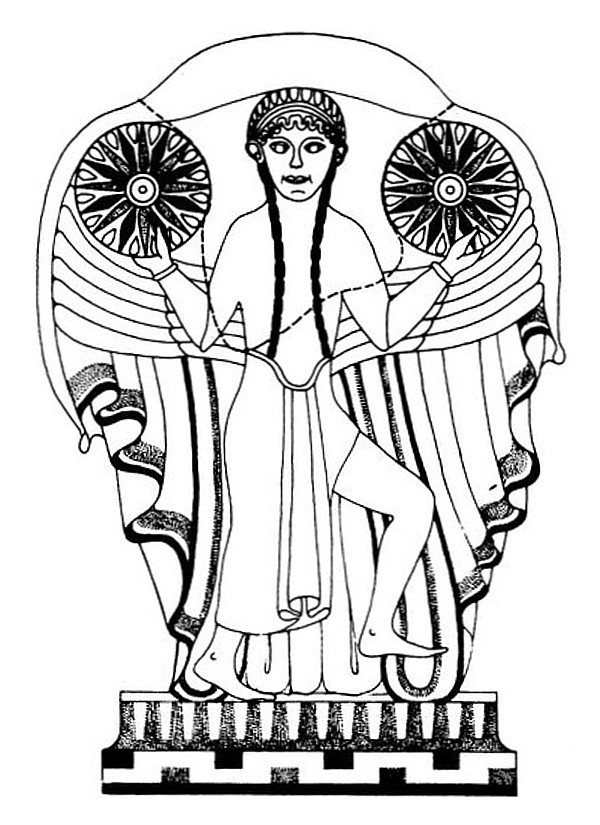 Antefix from Pyrgi probably with Thesan, morning and evening star